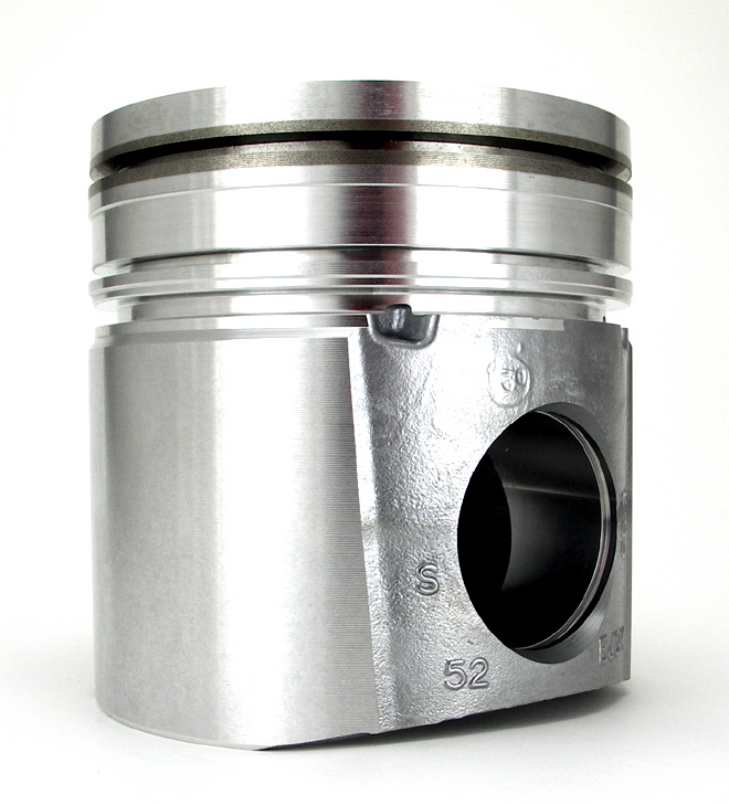 Cummins Diesel engine piston. permanent mold casting (AE) / gravity die casting (BE), machined.